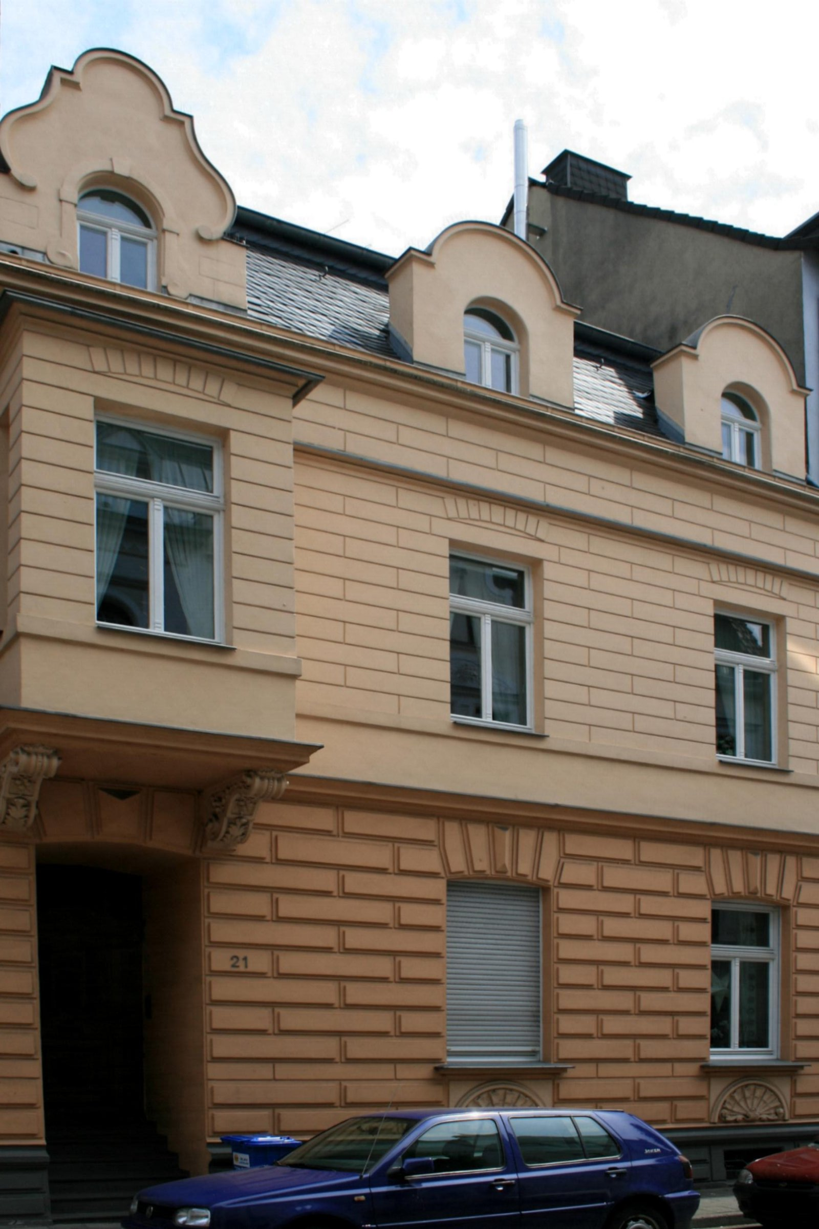 Cultural heritage monument No. B 073 in Mönchengladbach